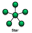 Overview diagram of Star Network Topology. Clipped from the source picture at: From English Wikipedia.